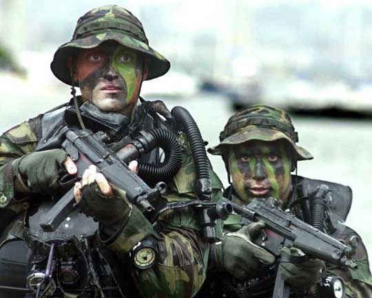 SEALs in from the water.